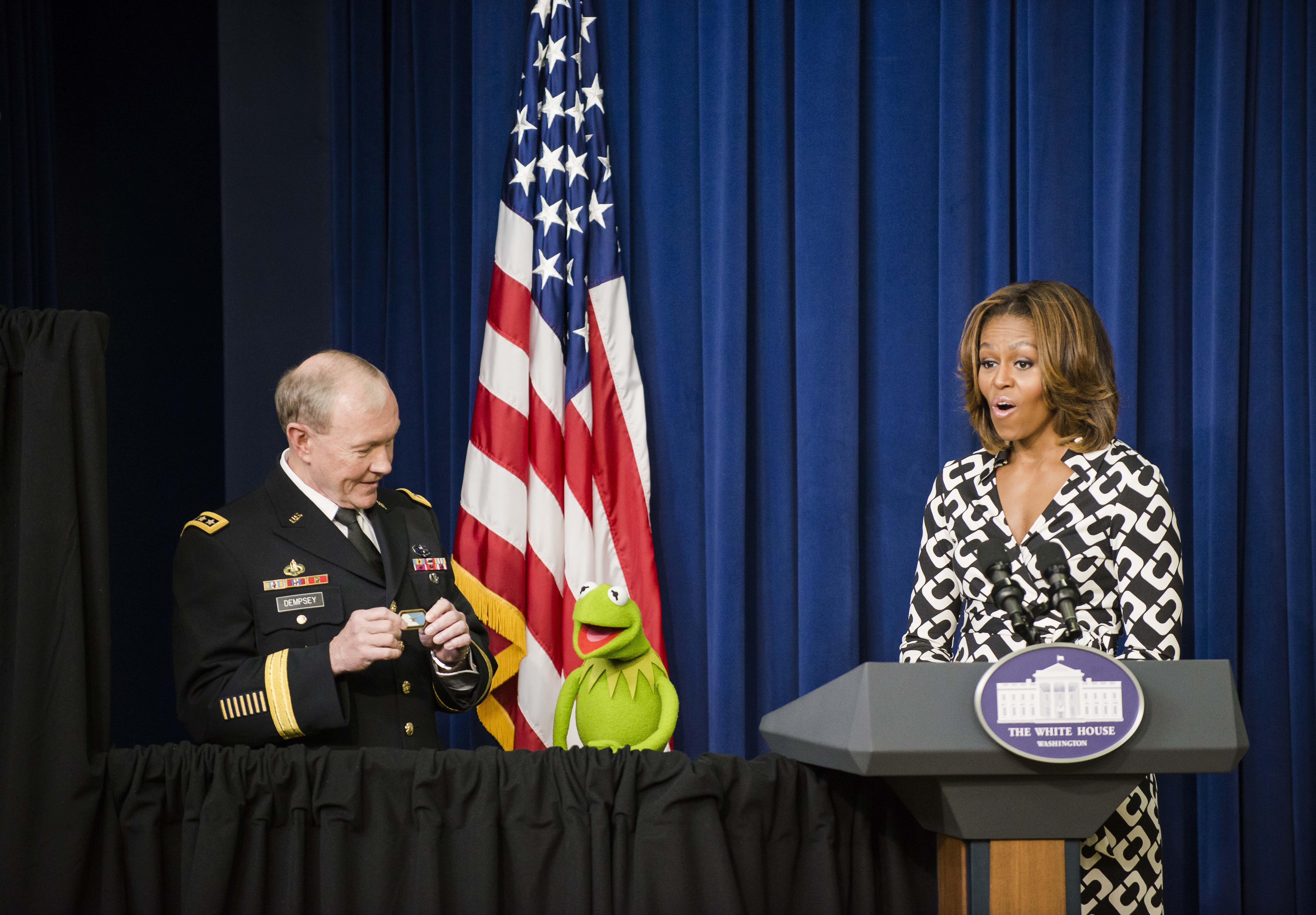 Gen. Dempsey thanks Kermit for his service to military families and presents him with a coin. 18th Chairman of the Joint Chiefs of Staff Gen. Martin E. Dempsey joined First Lady Michelle Obama in welcoming military families to a movie screening of the new Muppets movie, "Muppets Most Wanted", at the White House, Mar. 12, 2014. Gen. Dempsey opened the event with some jokes, and the First Lady introduced a special guest - Kermit the Frog. The three of them emphasized their gratitude for the service, strength, and resiliency of military families. (DoD photo by Staff Sgt. Sean K. Harp)